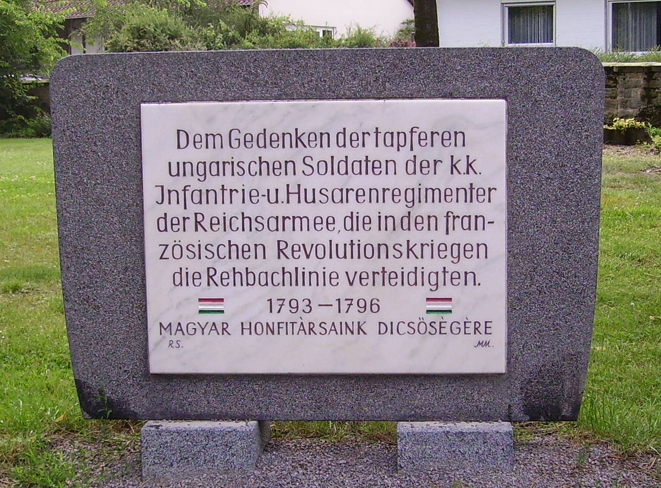 view of Limburgerhof, Germany